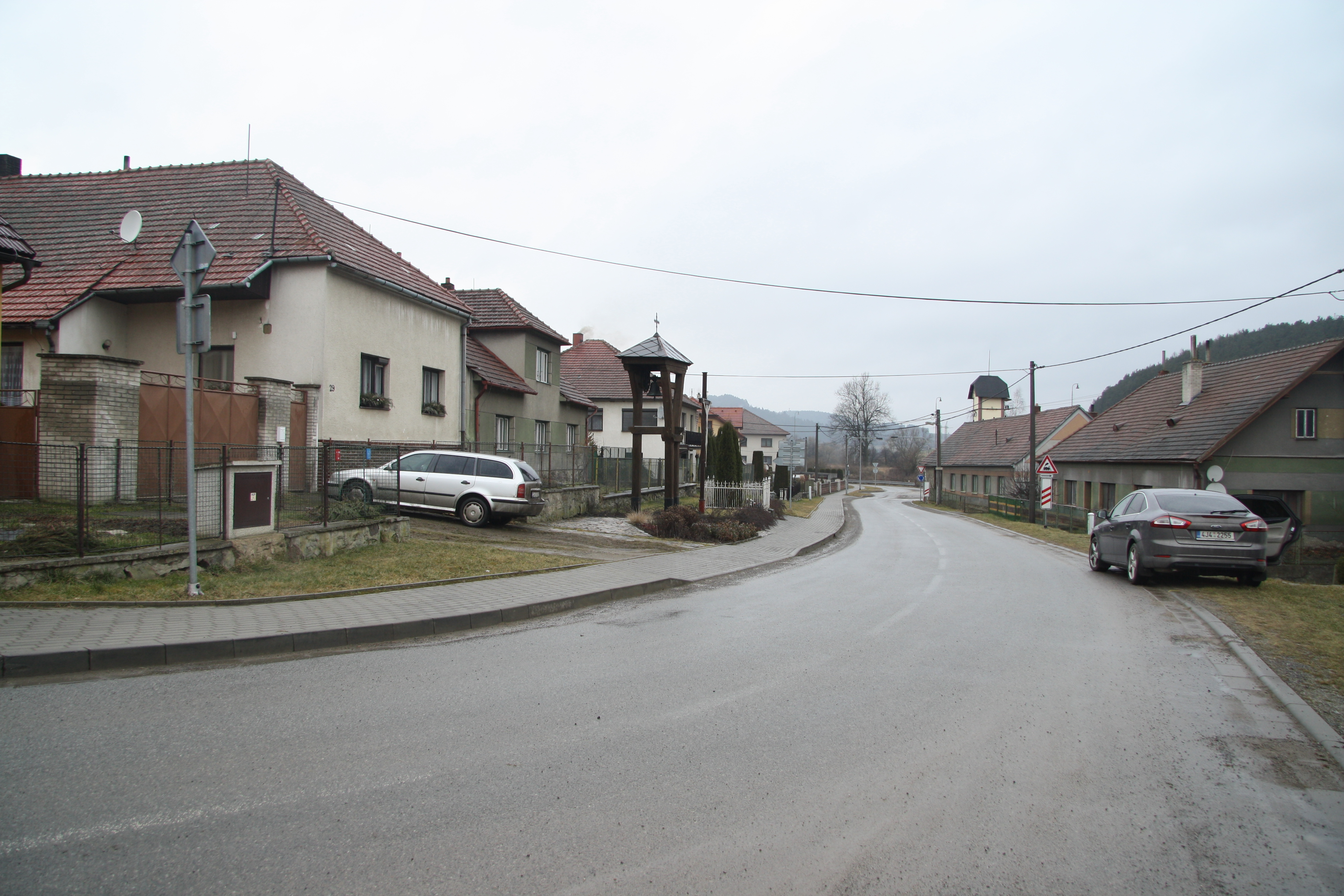 Center of Bransouze, Třebíč District.